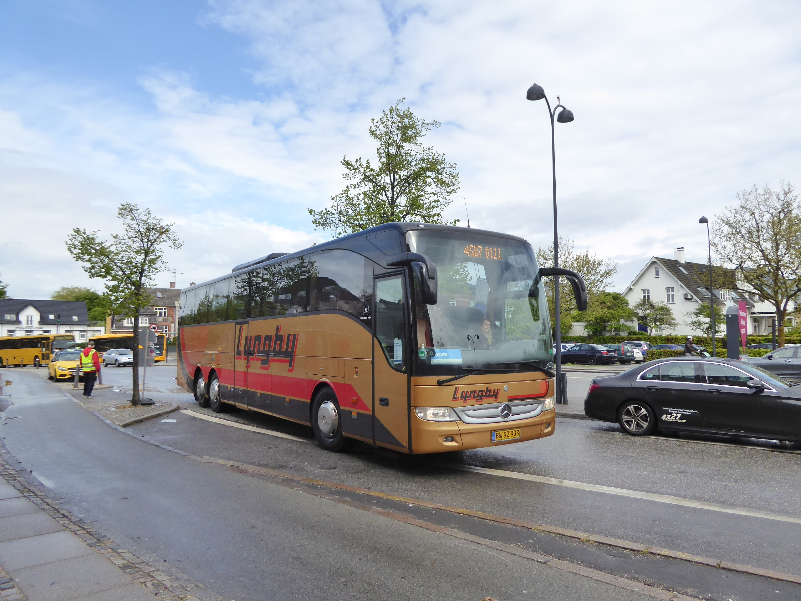 Rail transport bus of Lyngby Turistfart at Hellerup Station in Copenhagen. Due to tests of a new signal system several Copenhagen S-train lines were replaced by buses during the weekend 16-17 May 2020. Hellerup Station served as a meeting for several of the rail transport bus lines during the weekend.